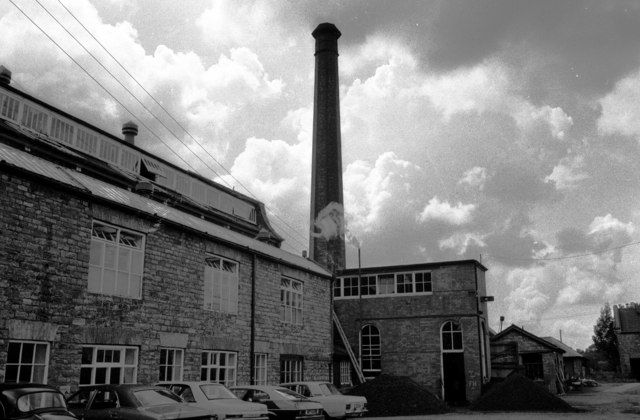 Coldharbour Mill This was still in commercial operation and driven by a cross compound steam engine. The site is now a museum.